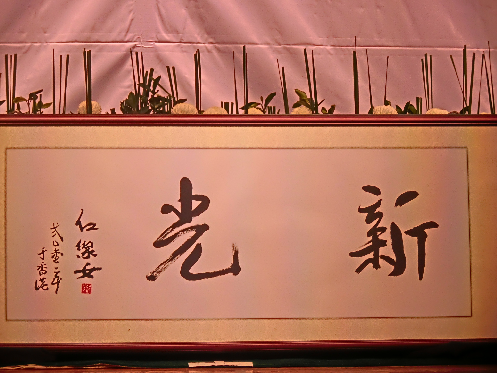 北角新光戲院, 紅線女, Sunbeam Theatre, King's Road, North Point, Hong Kong